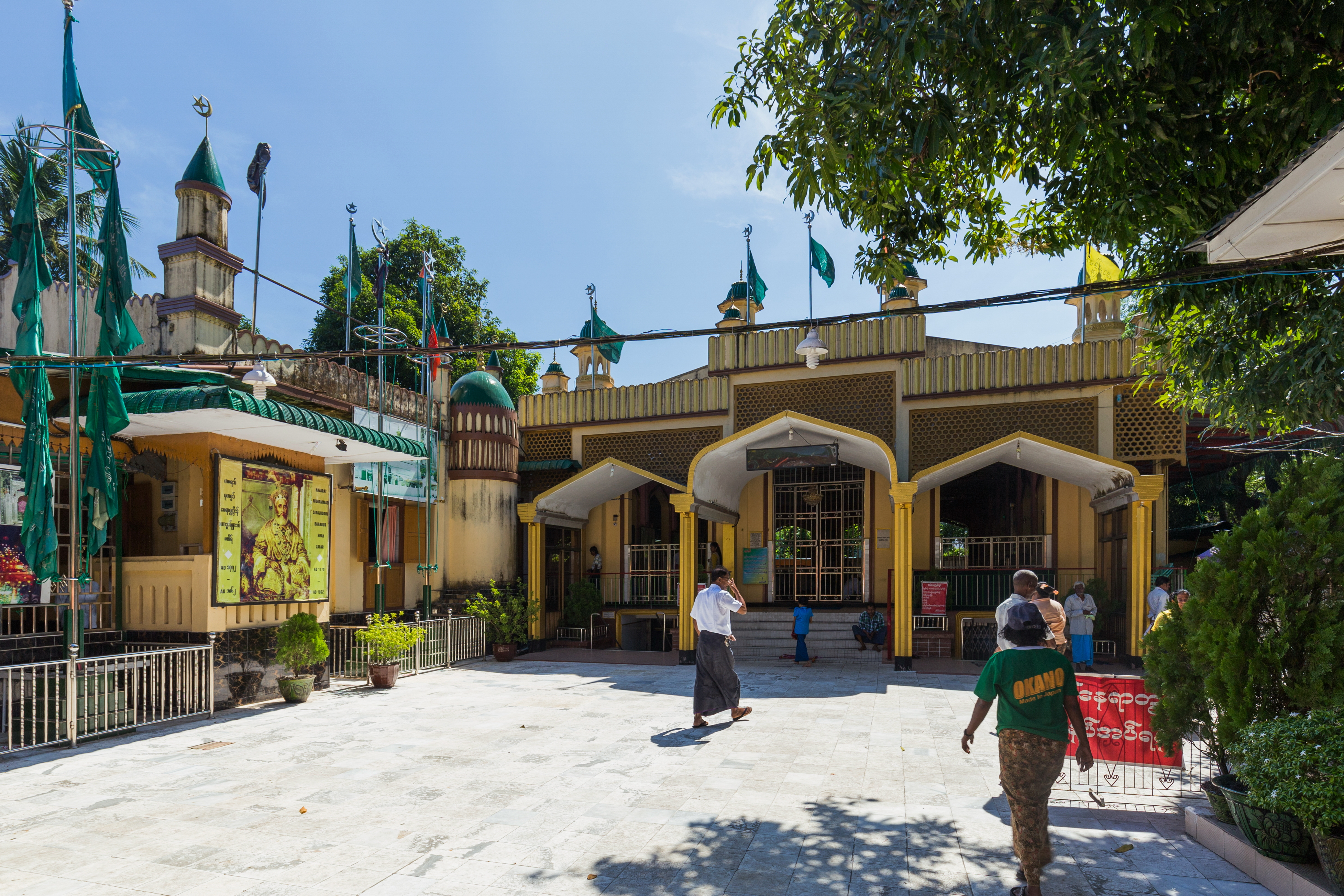 Bahadur Shah Zafar Dargah Memorial. Yangon, Myanmar.